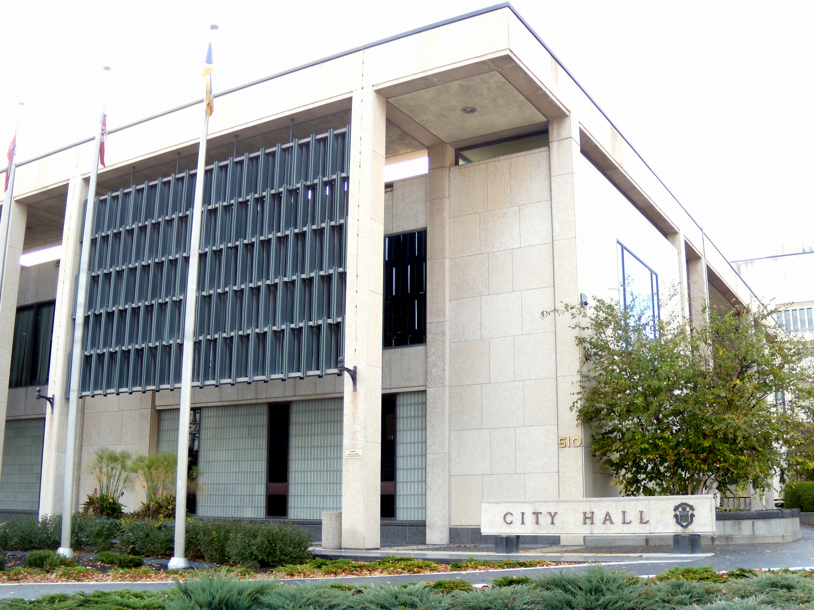 Winnipeg's City Hall building, 2012